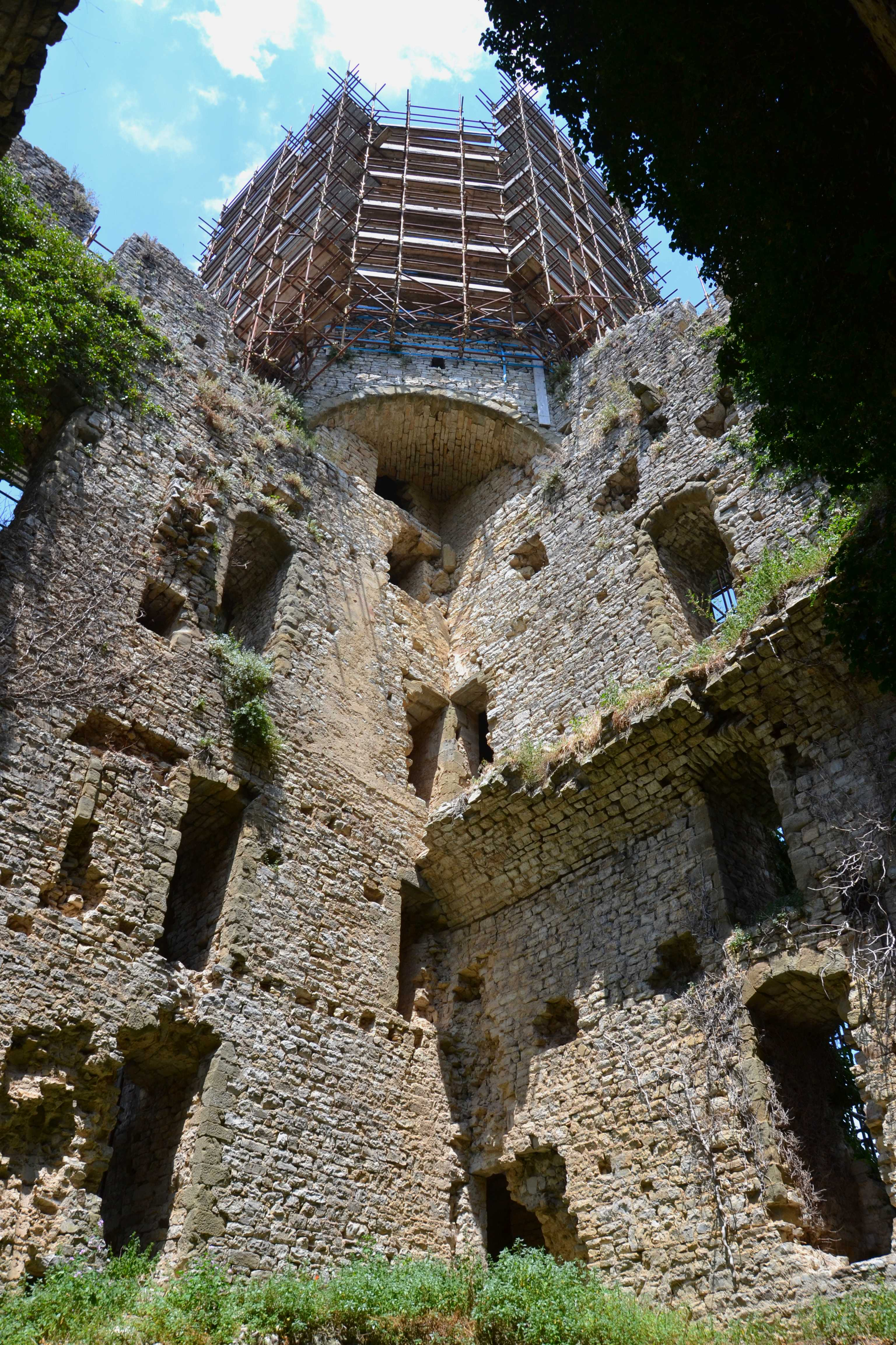 Rocca di Pierle, castle in Umbrien